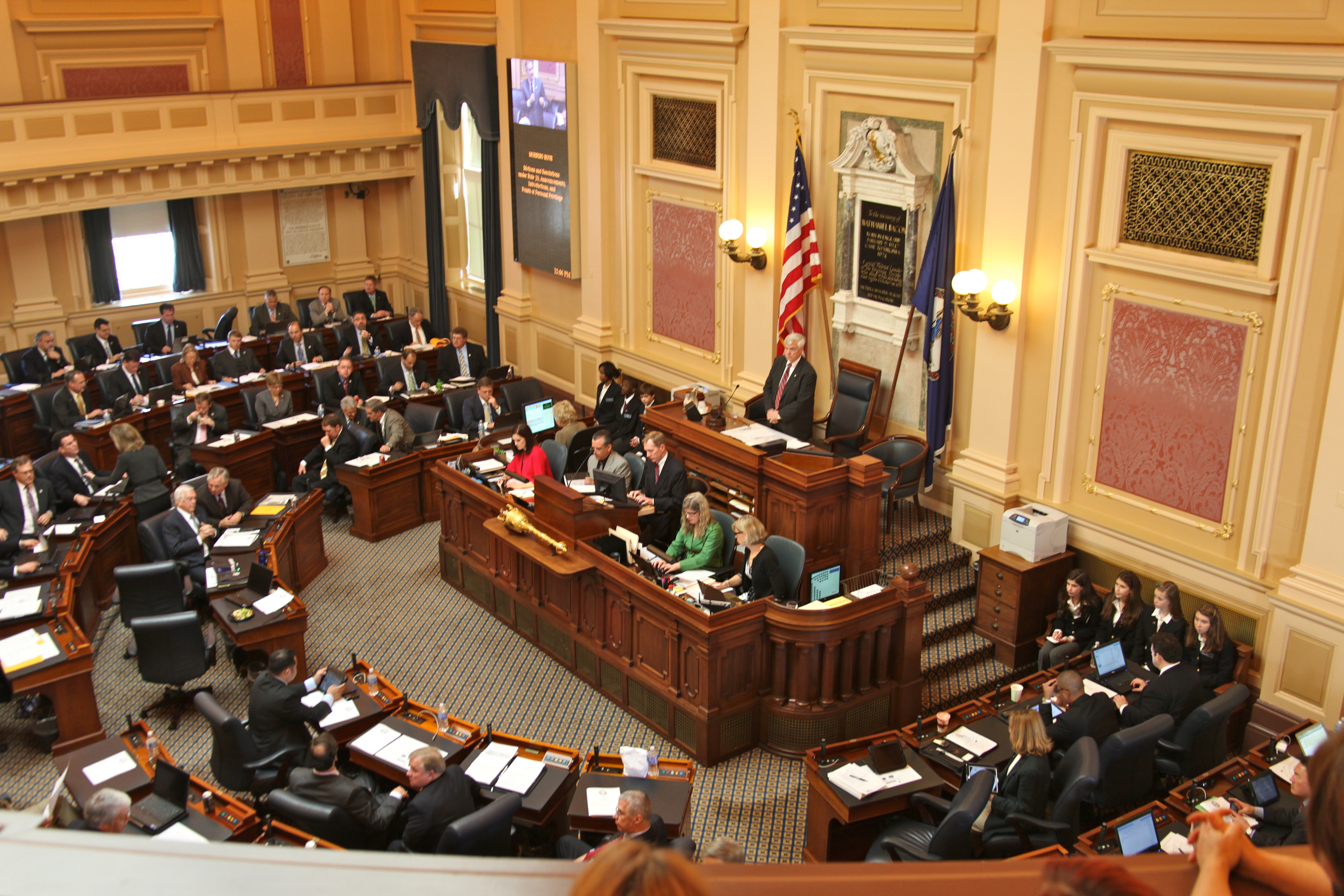 Speaker of the Virginia House of Delegates William J. Howell presiding over the House on January 12, 2012